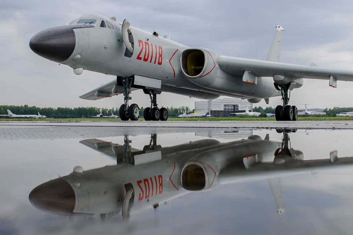 Xian H-6.